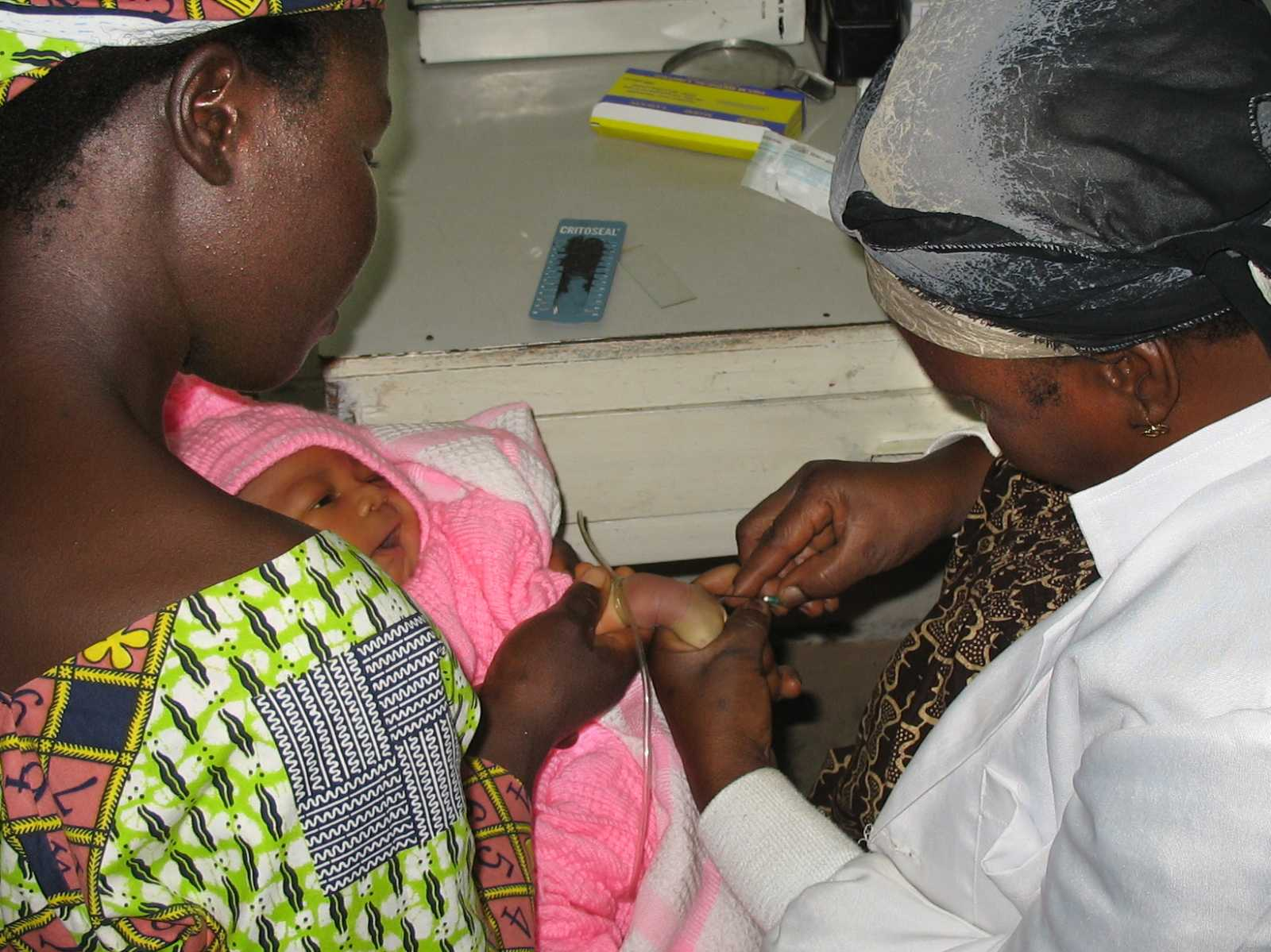 A lab worker drawing blood from a young baby in ECWA Evangel Hospital, Jos, Nigeria